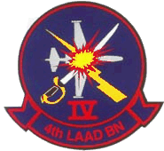 Contribs) . . 185x170 (20,442 bytes)